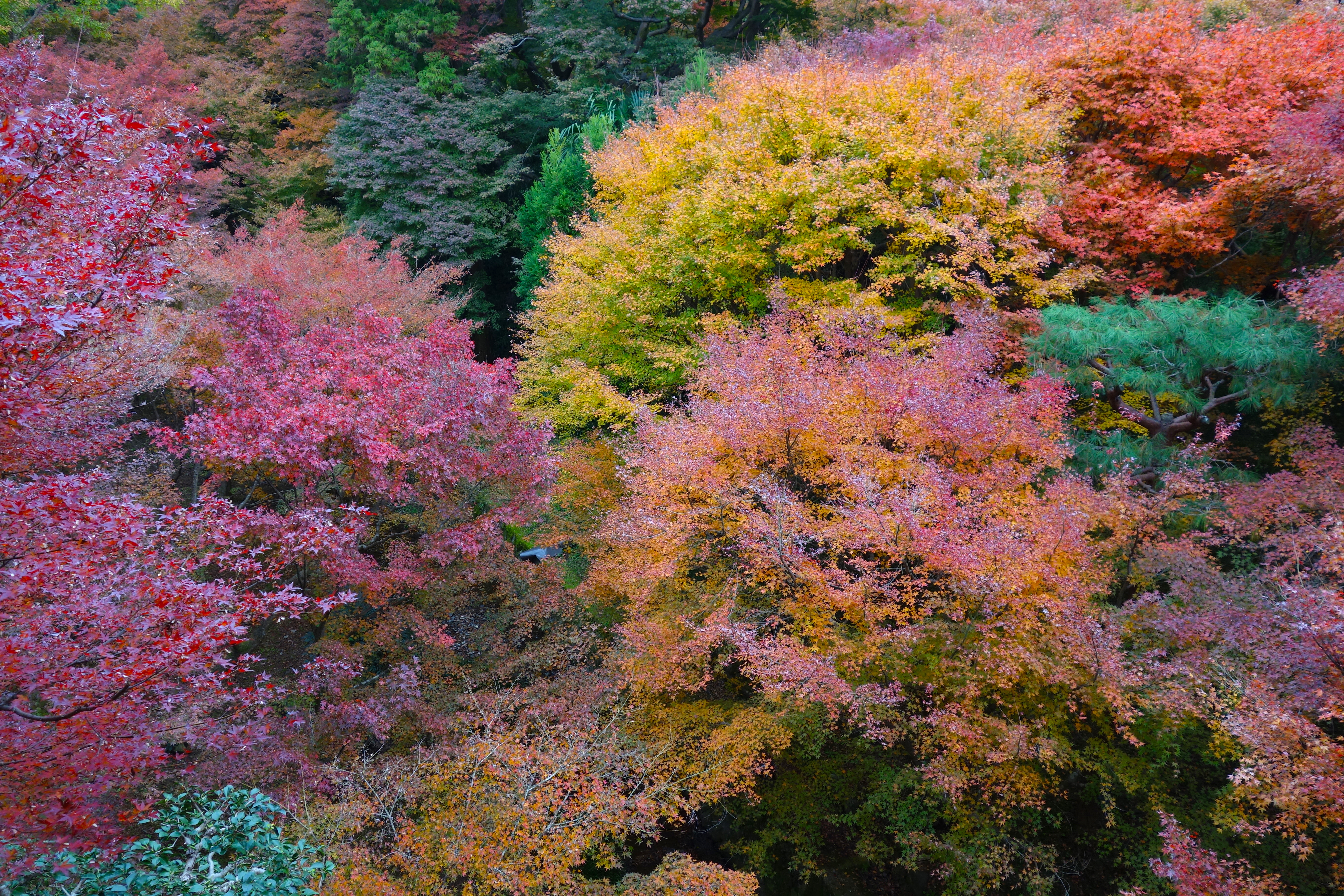 Trees in autumn foliage around Tōfuku-ji, Kyoto.